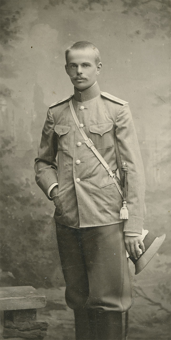 A photo of Baron Roman von Ungern-Sternberg